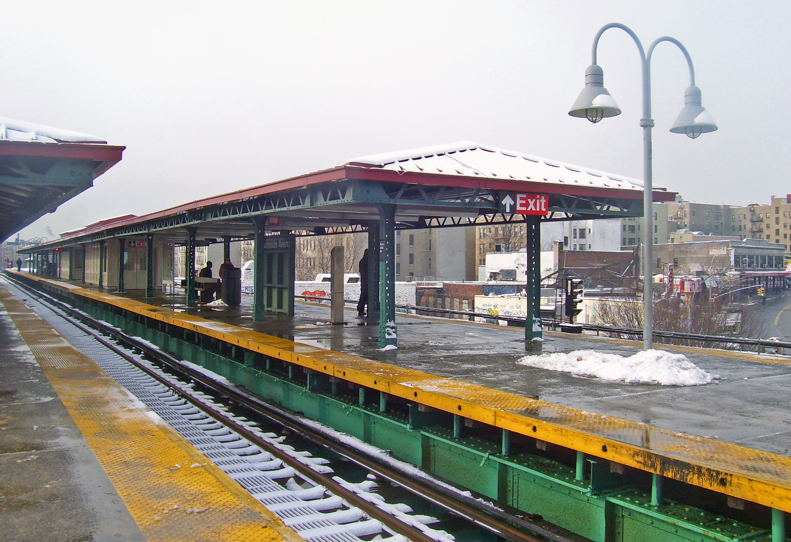 View south from platform at Burnside Avenue station on New York City's 4 subway line. Taken for Wikipedia Takes the Subway